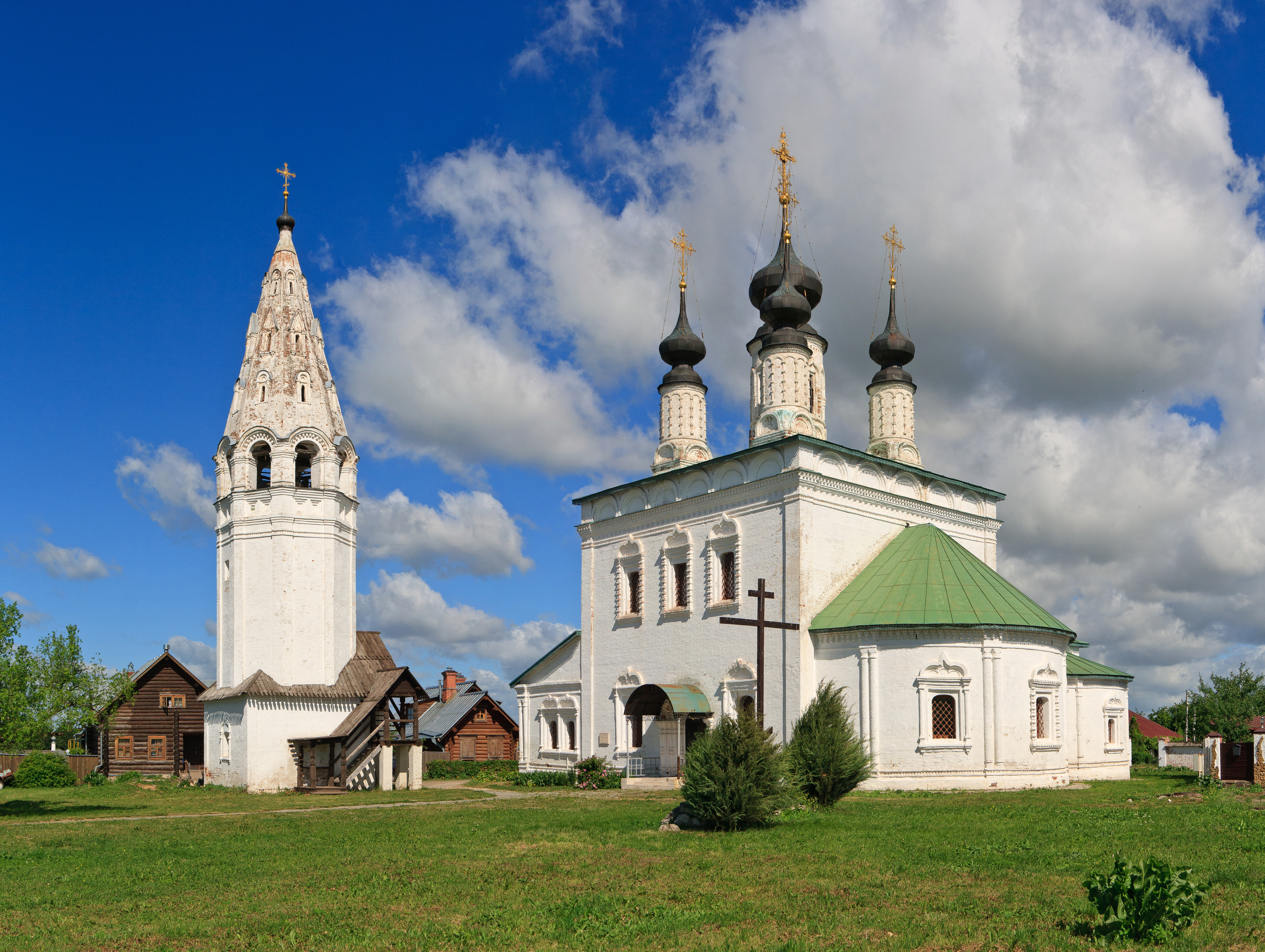 Ascension church and bell-tower of Alexandrovsky Monastery, Suzdal, Vladimir Oblast, Russia